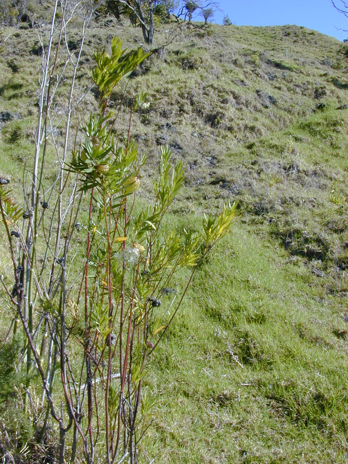 Asclepias physocarpa (habit with seeds). Location: Maui, Auwahi